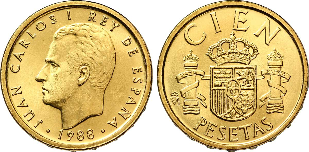 100 pesetas à l'effigie de Juan Carlos I,1988